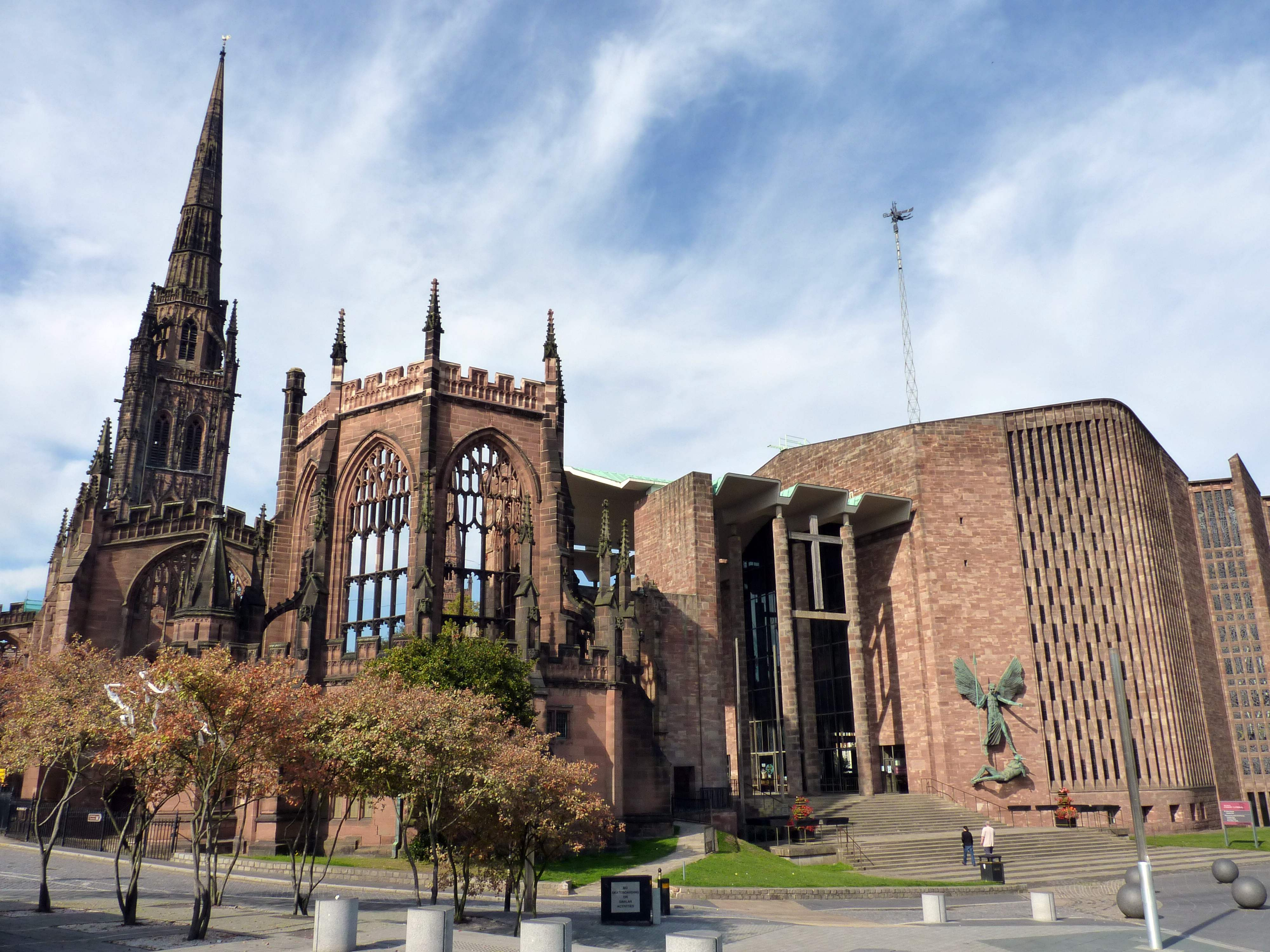 Uncategorised photo taken at Herbert Backstage Pass.